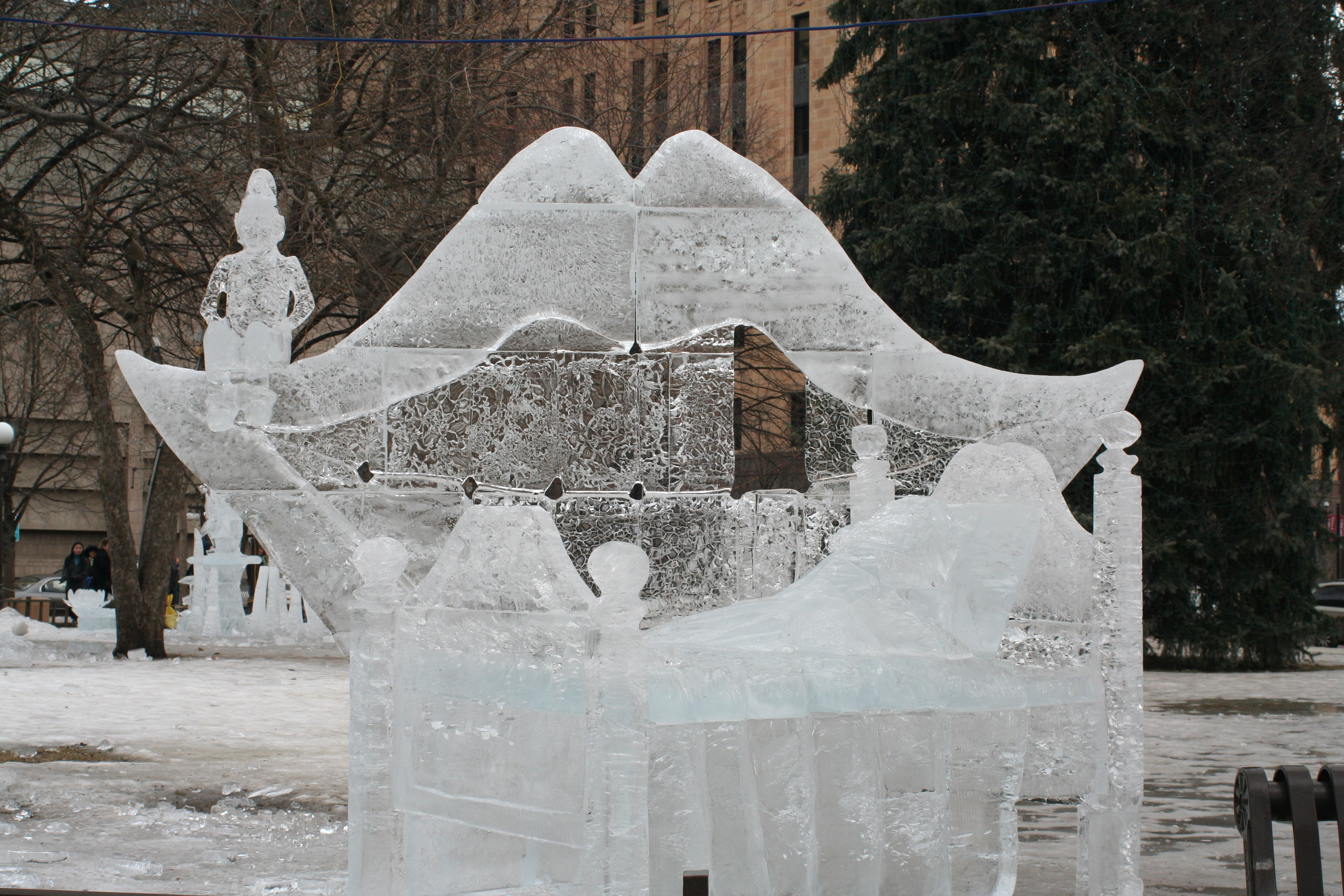 Tooth Fairies, sixth place winner in multiblock ice sculpture competition during 2008 Saint Paul Winter Carnival. Created by John Raak, Rob Graham, and Terry Reis.